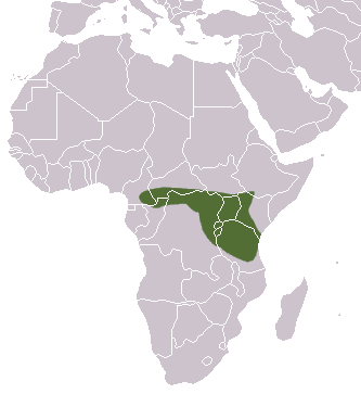 Hildegarde's Shrew (Crocidura hildegardeae) range